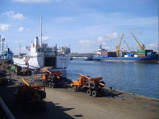 Ferries of Jakarta